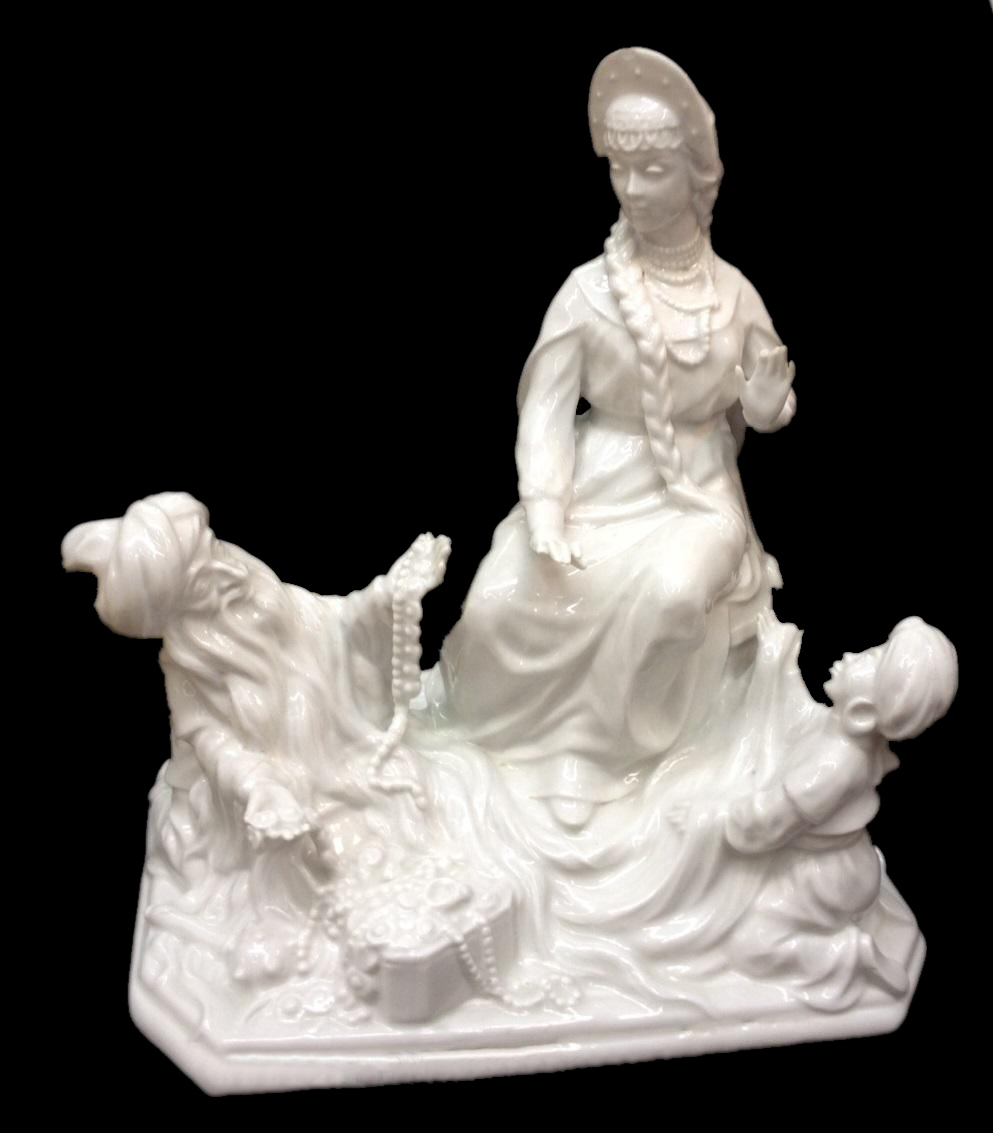 The sculptural composition «Lyudmila, rejecting gifts of the Chernomor» on the fairy tale «Ruslan and Lyudmila». 1956. Porcelain sculpture of the soviet sculptor Bronislav Bystrushkin (1926-1977). Lomonosov's Porcelain Factory, Leningrad, USSR.